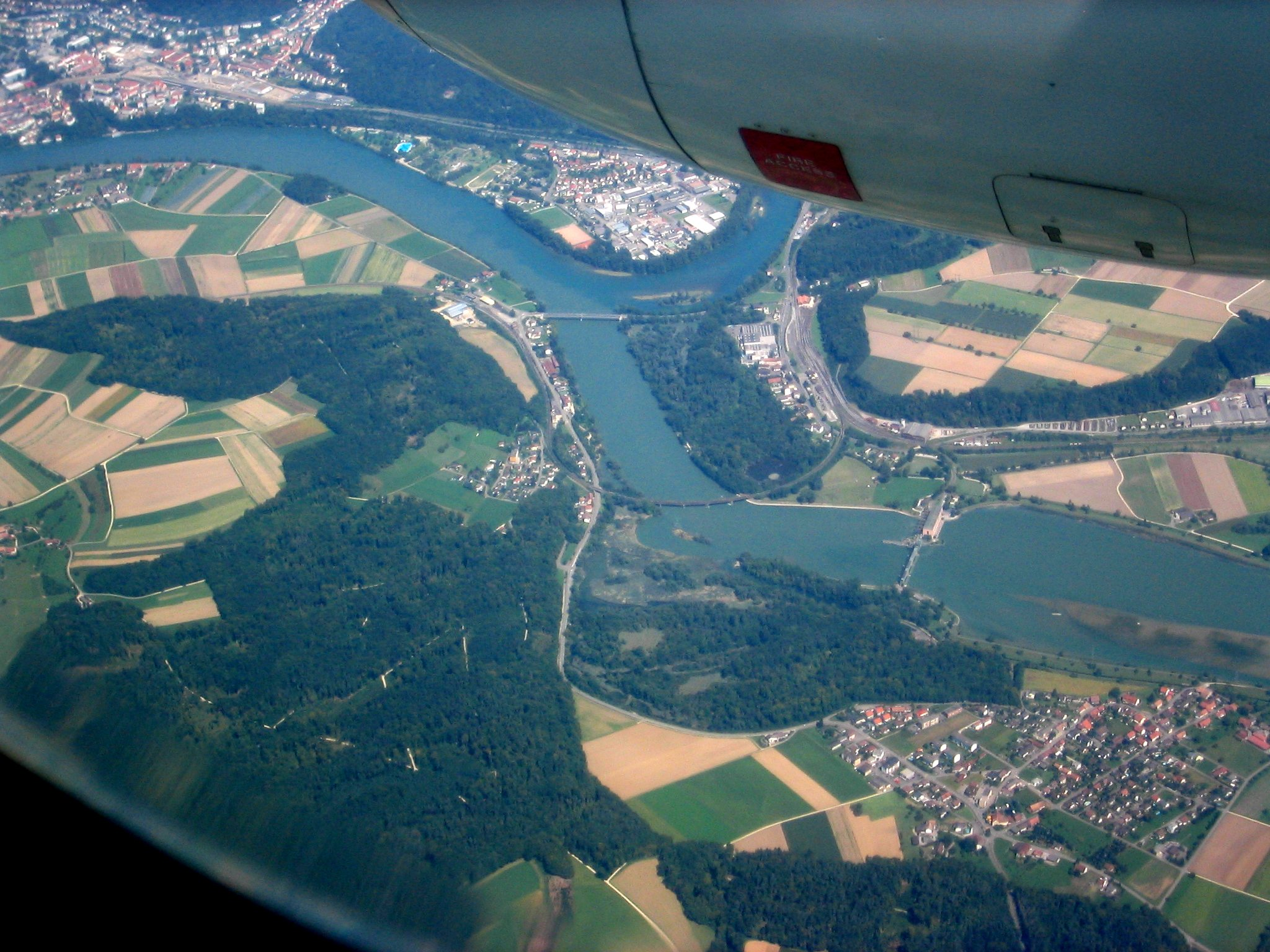 Aar joining Rhine. Aerial view. Aar flowing north (from the bottom right side) into the Rhine. Train station of Koblenz slightly to the right of the center Felsenau (Leuggern) slightly to the left of the center Gippingen (Leuggern) on the lower right side Klingnauer Stausee, a reservoir on the Aar, above it Waldshut (Germany), north of the Rhine